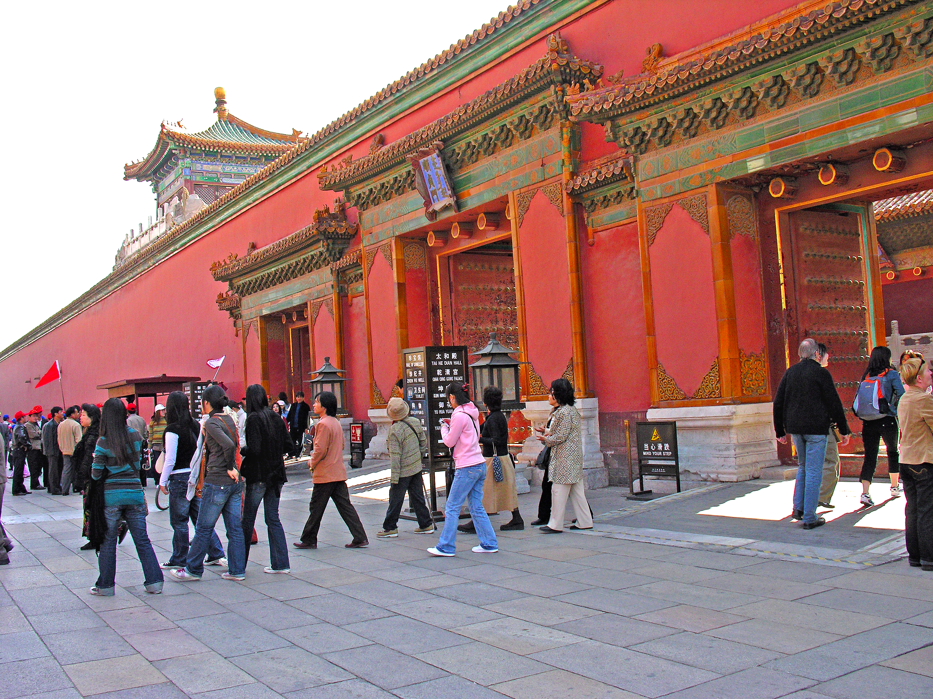 Left the Forbidden City by the Northern Gate, Gate of Divine Might.